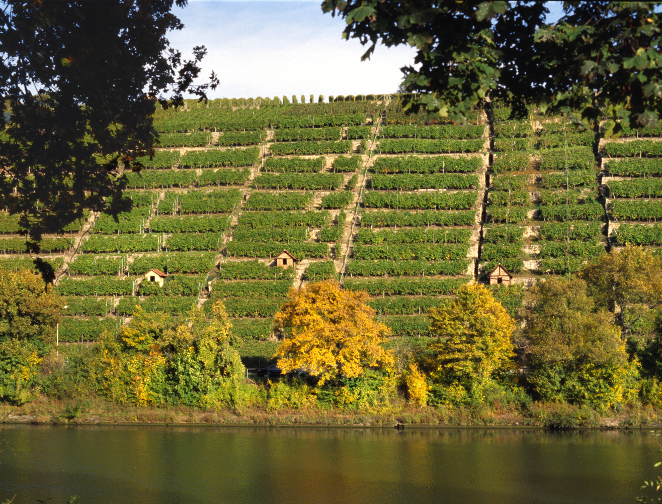 Cannstatter Zuckerle Vineyard, Stuttgart Bad Cannstatt, Baden-Württemberg, Germany